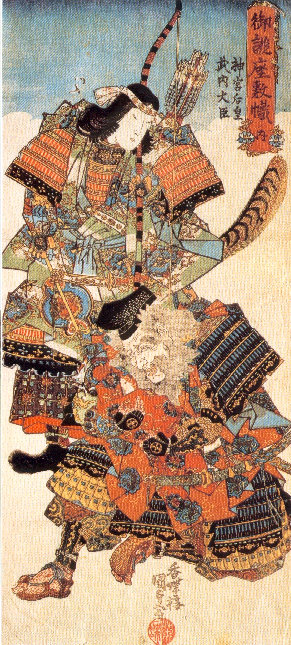 Empress Jingu and her minister Takenouchi no Sukune.